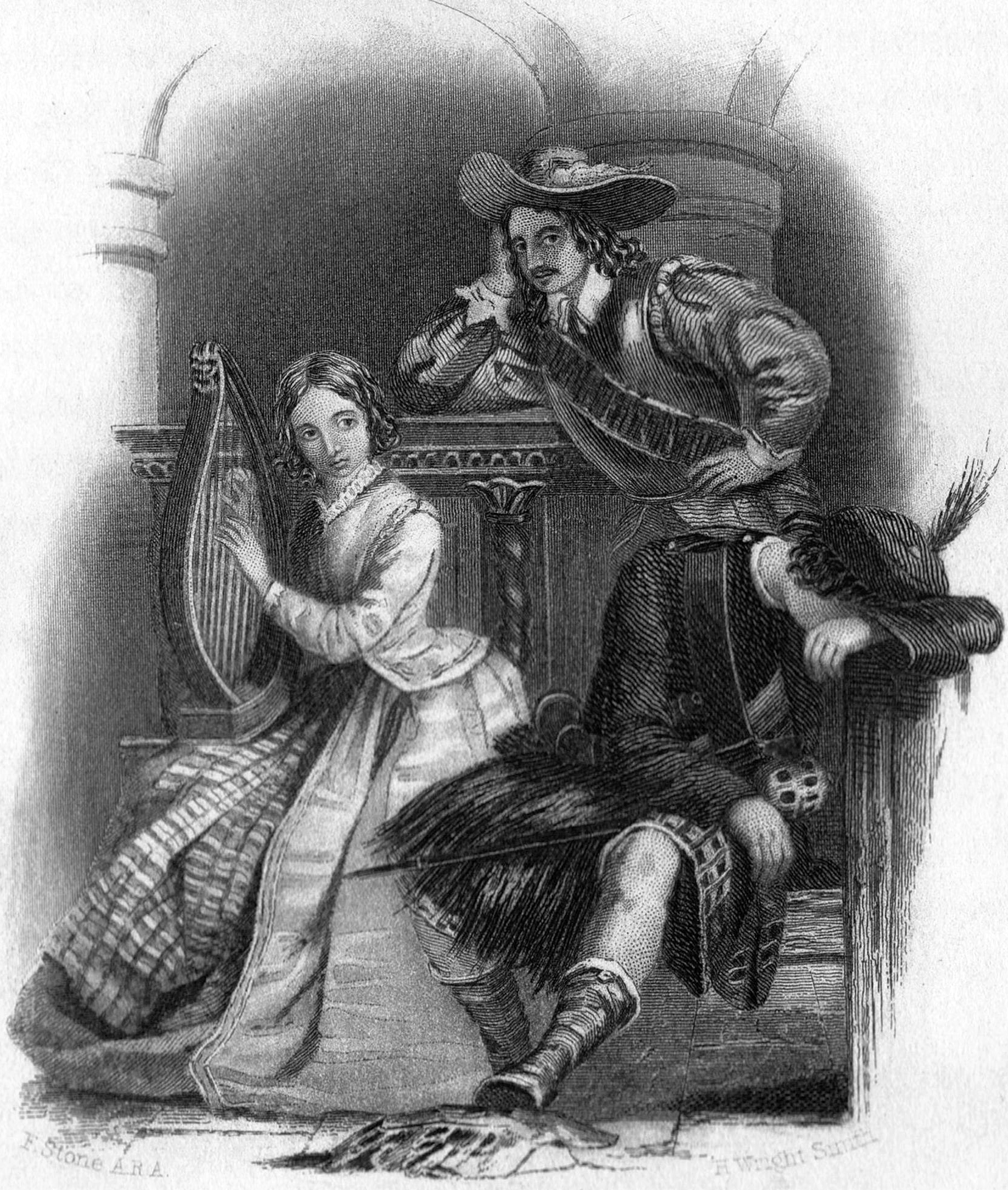 A Legend of Montrose illustration. From 1872 edition published by James R. Osgood and Company, Boston